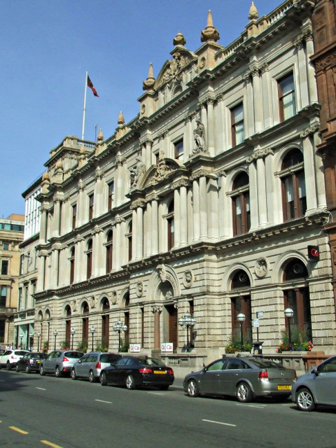 Clydesdale Bank HQ